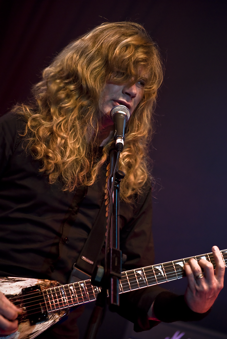 Dave Mustaine of heavy/thrash metal band Megadeth live at a concert at the Priest Fest in March 2009.